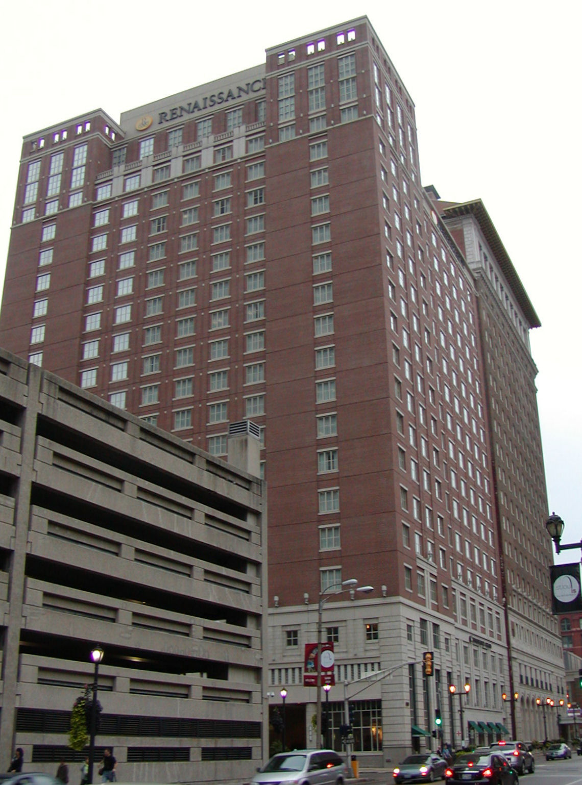 The Renaissance Grand Hotel's 23-floor addition, built in 2002 in St. Louis, Missouri, USA. The former Statler Hotel is behind this tower.